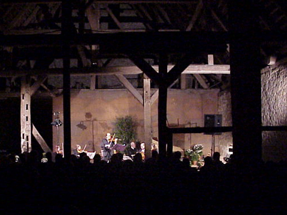 Baroque in a knight's manor